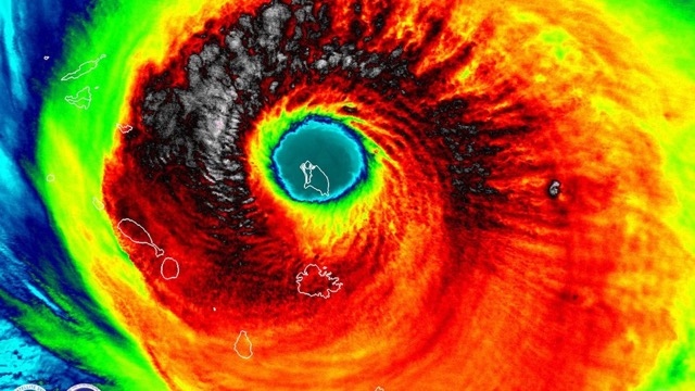 Eye of hurricane Irma over the island of Barbuda, dependency of the State of Antigua and Barbuda, Leeward Islands, Lesser Antilles, Caribbean, on 2017-09-06